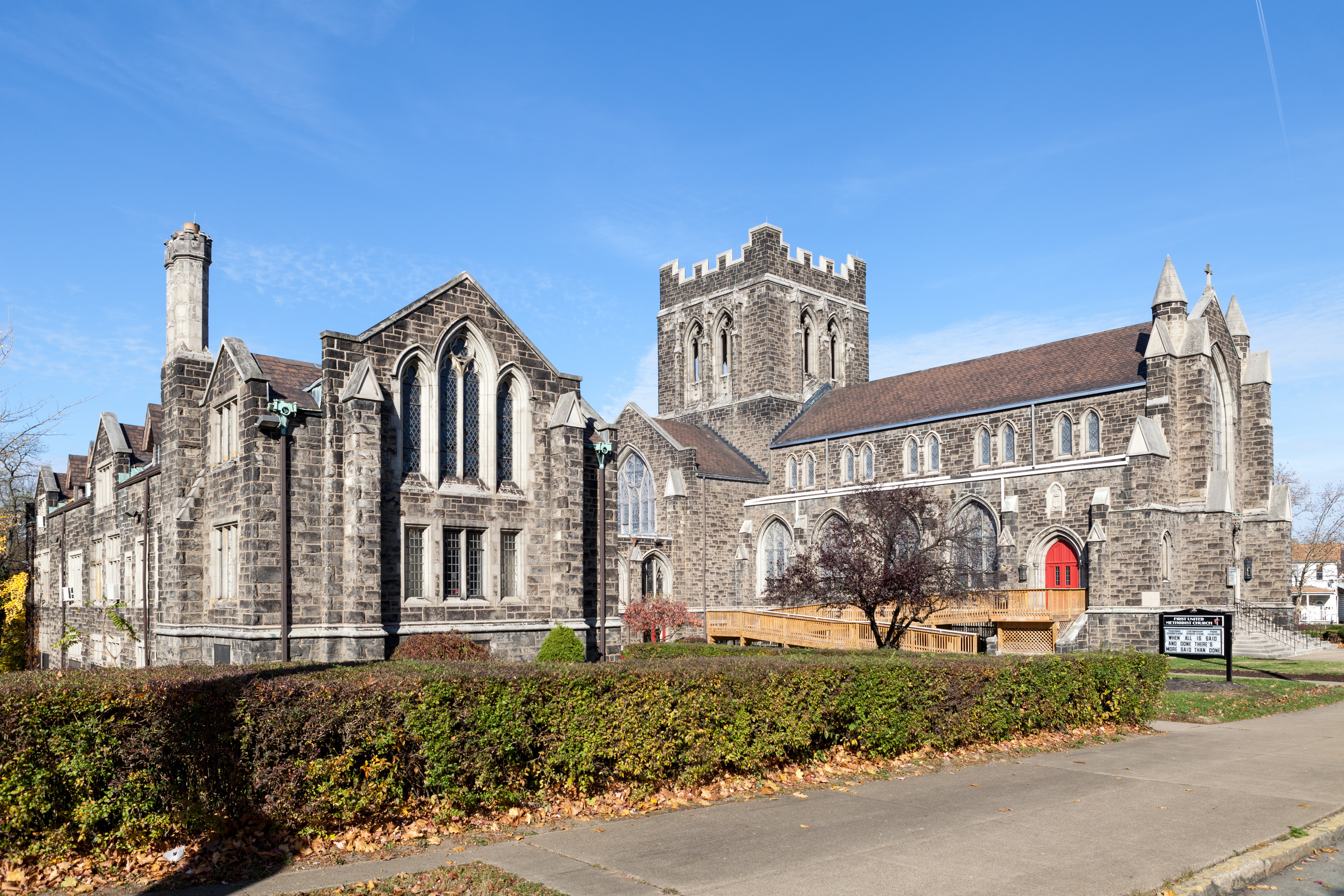 First Methodist Episcopal Church of McKeesport, a historic church in McKeesport, Pennsylvania, now called First United Methodist Church